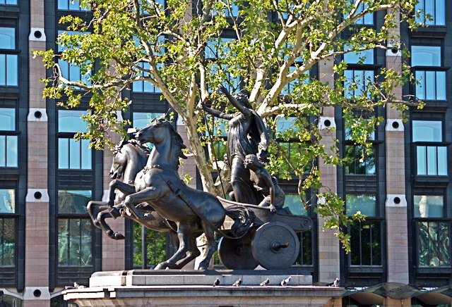 Bronze statue of Queen Boudica, Westminster Pier, London This excellent monument, with its horse-drawn battle chariot driven by the warrior queen of the Ancient Britons, stands outside the new government offices at Portcullis House on the Thames near Big Ben.